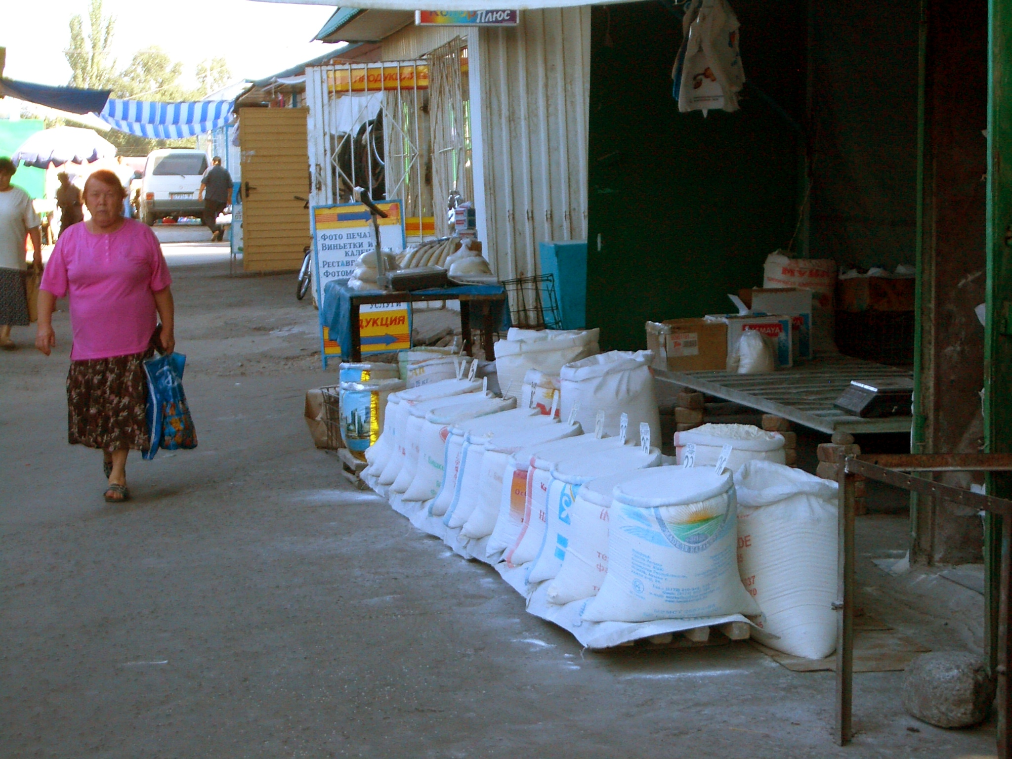 A flour vendor at Alamudun Bazaar, Bishkek.